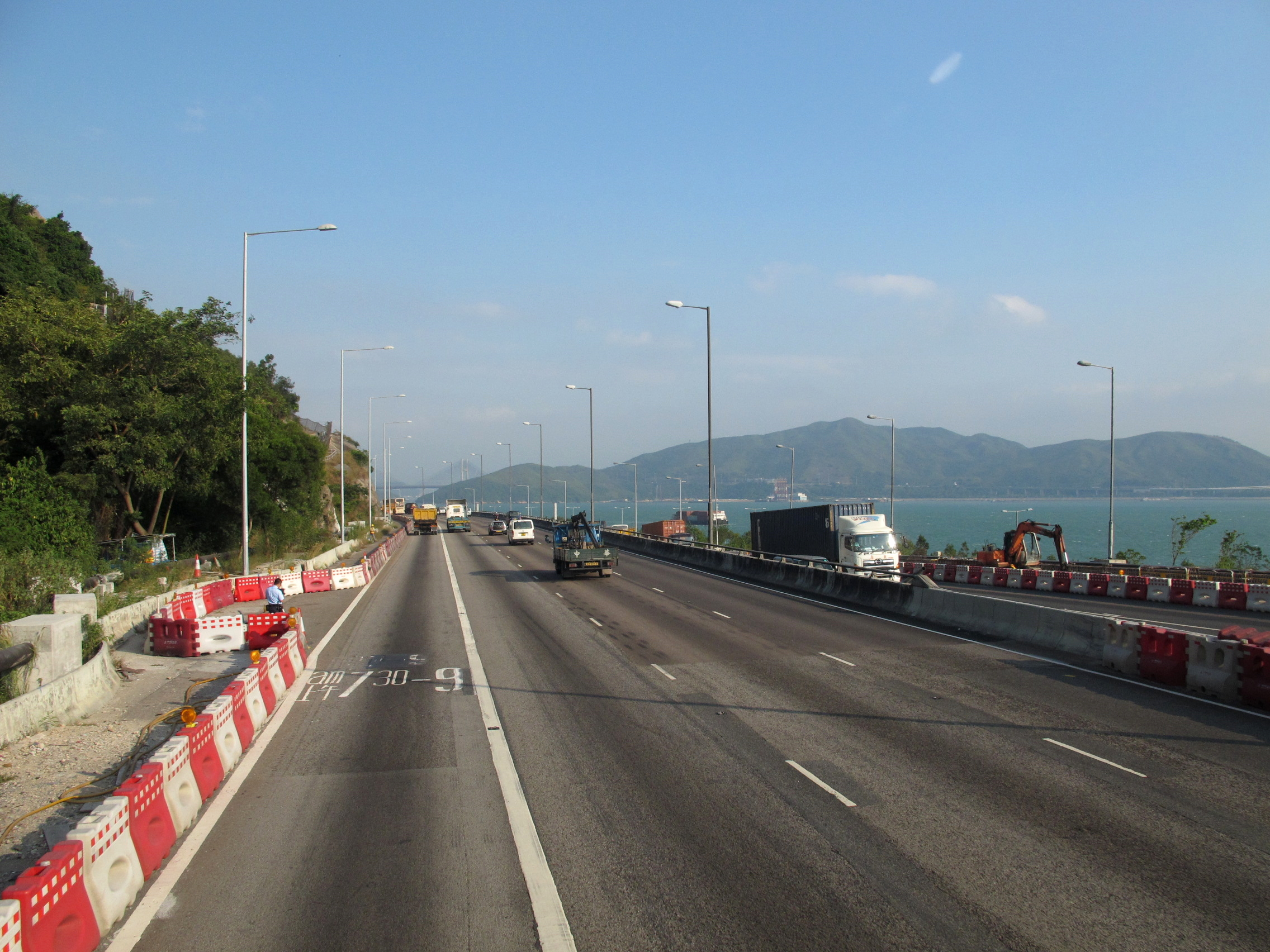 Tuen Mun Road So Kwun Wat Section